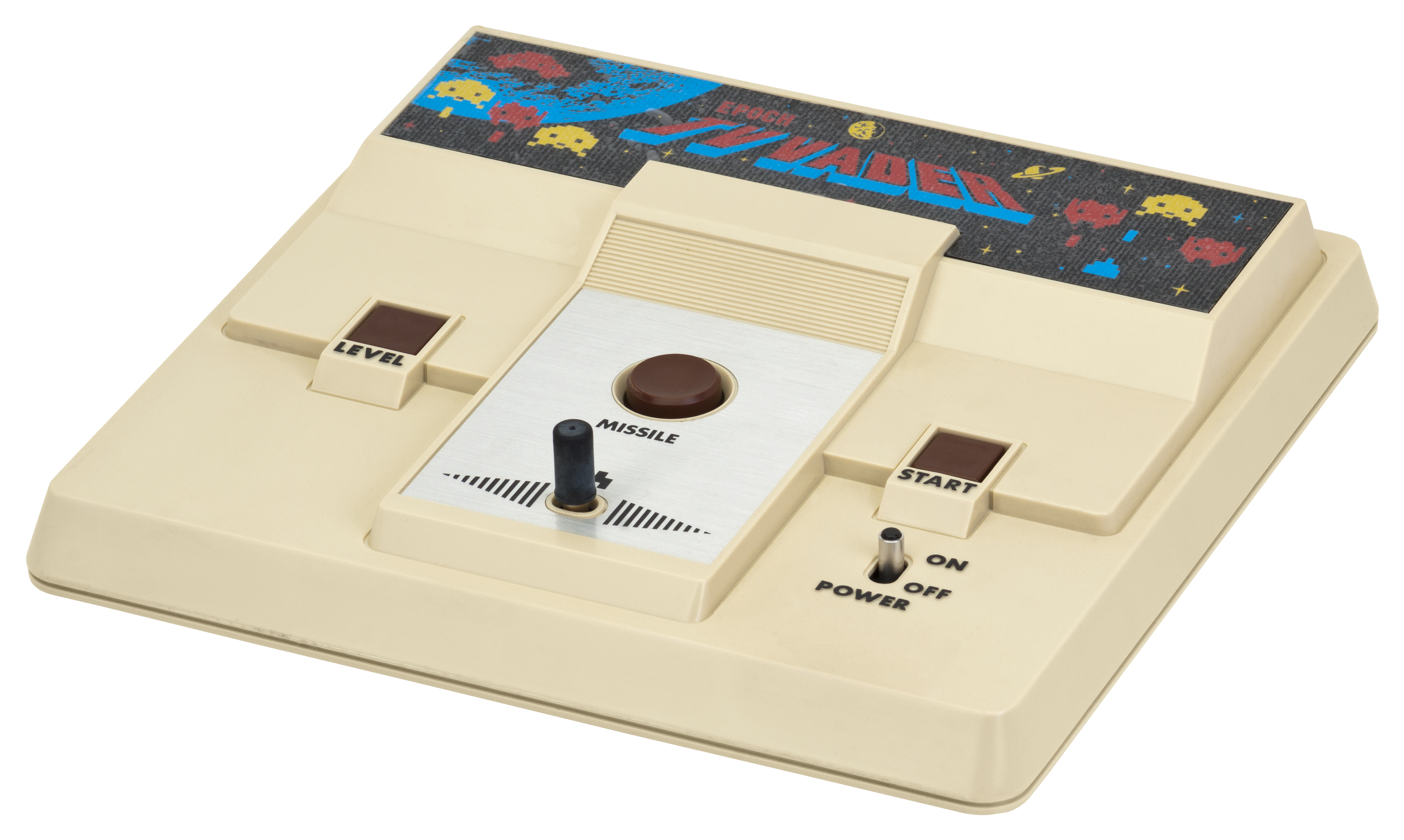 The Epoch TV Vader, a dedicated game console made by Epoch and released only in Japan around 1980. Attaching to a TV, it let you play a game that was a clone of Space Invader.